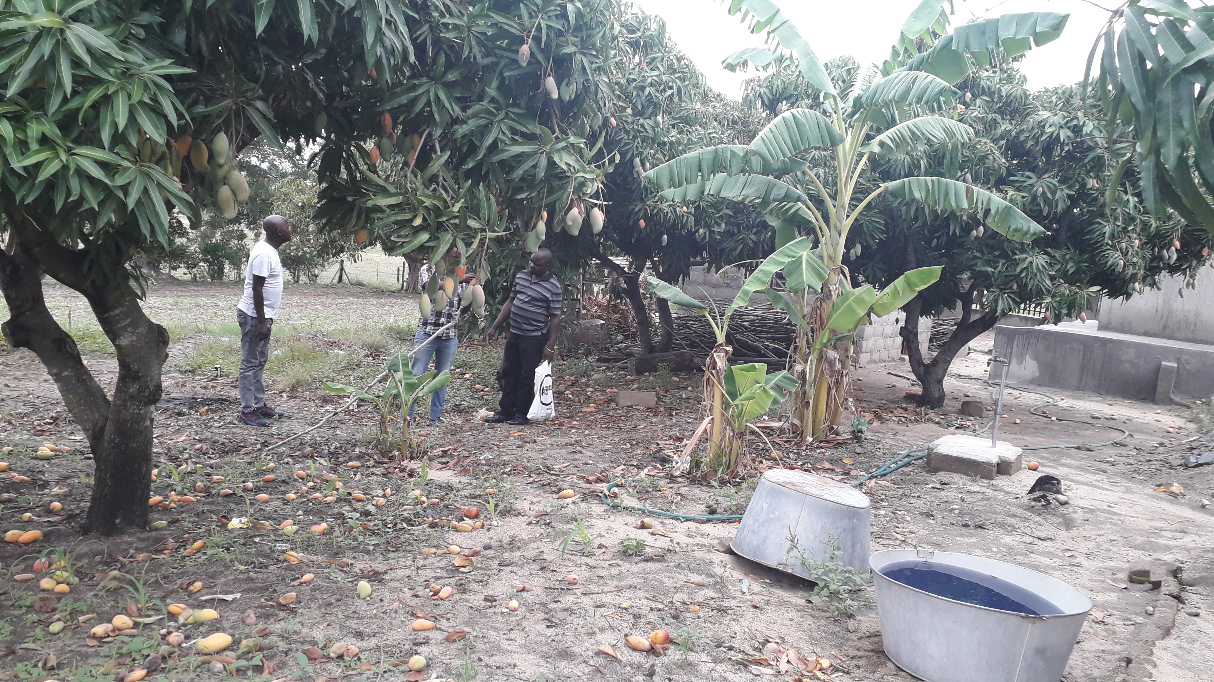 This is an image with the theme "Play" from: South Africa